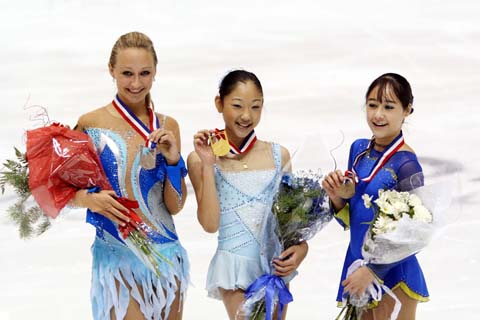 The ladies podium at the 2007 Junior Grand Prix event in Lake Placid, New York, USA. From left: Alexe Gilles (2nd), Mirai Nagasu (1st), Angela Maxwell (3rd).